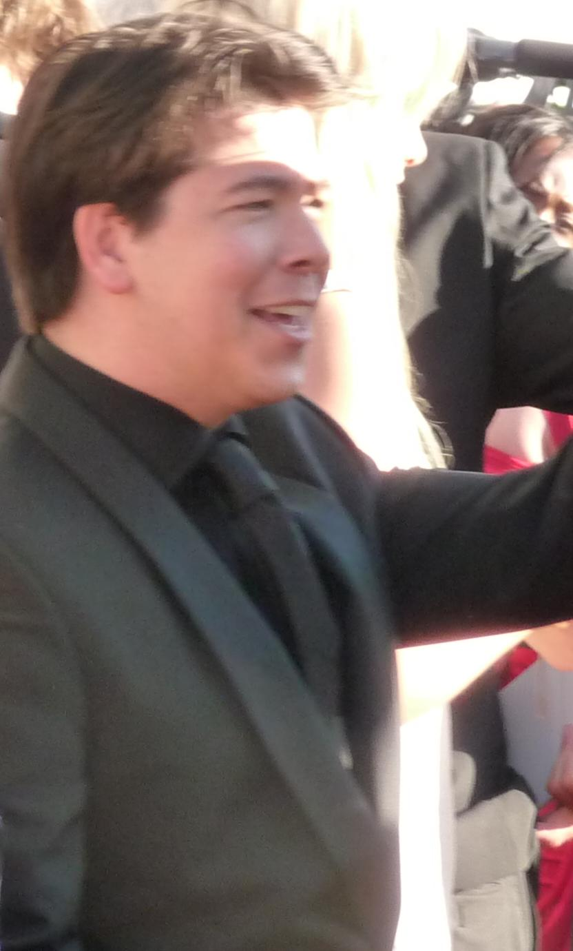 Stand-up comedian Michael MacIntyre on the red carpet at the BAFTA Awards, held at the Royal Festival Hall, on the Southbank in London.